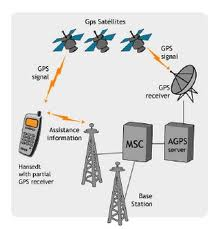 AGPS